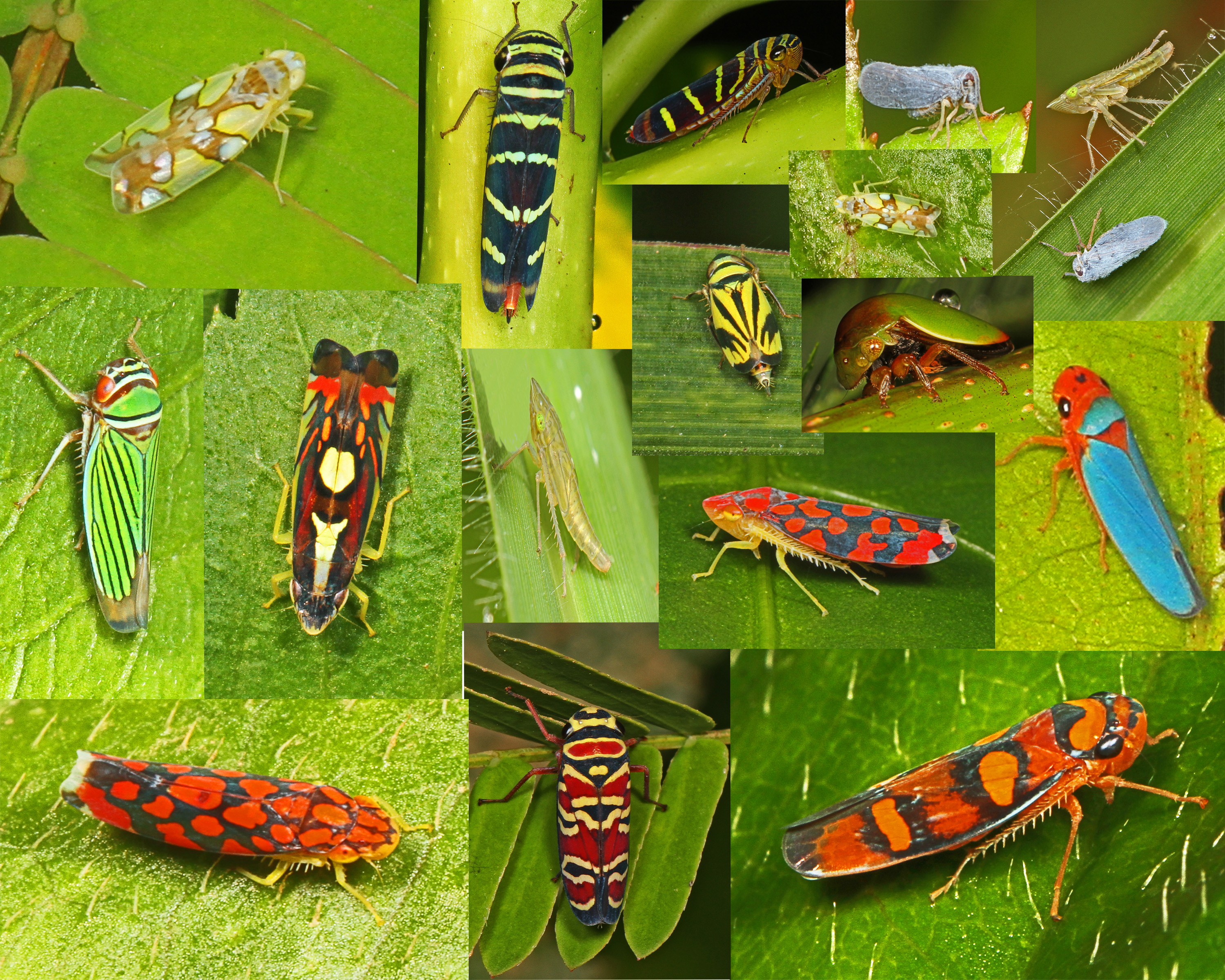 Treehopper